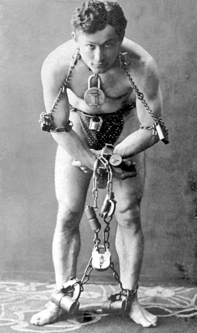 Harry Houdini, full-length portrait, standing, facing front, in chains